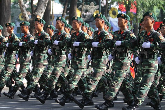 PAVN soldiers in 2015.